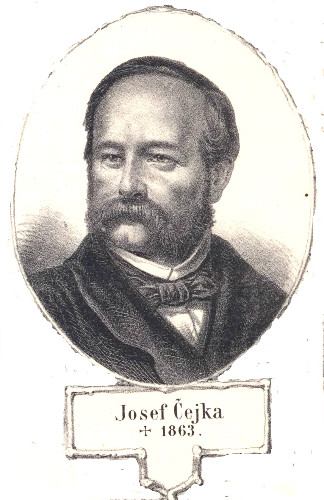 Portrait of Josef Čejka (1812-1862), Czech physician and politician.